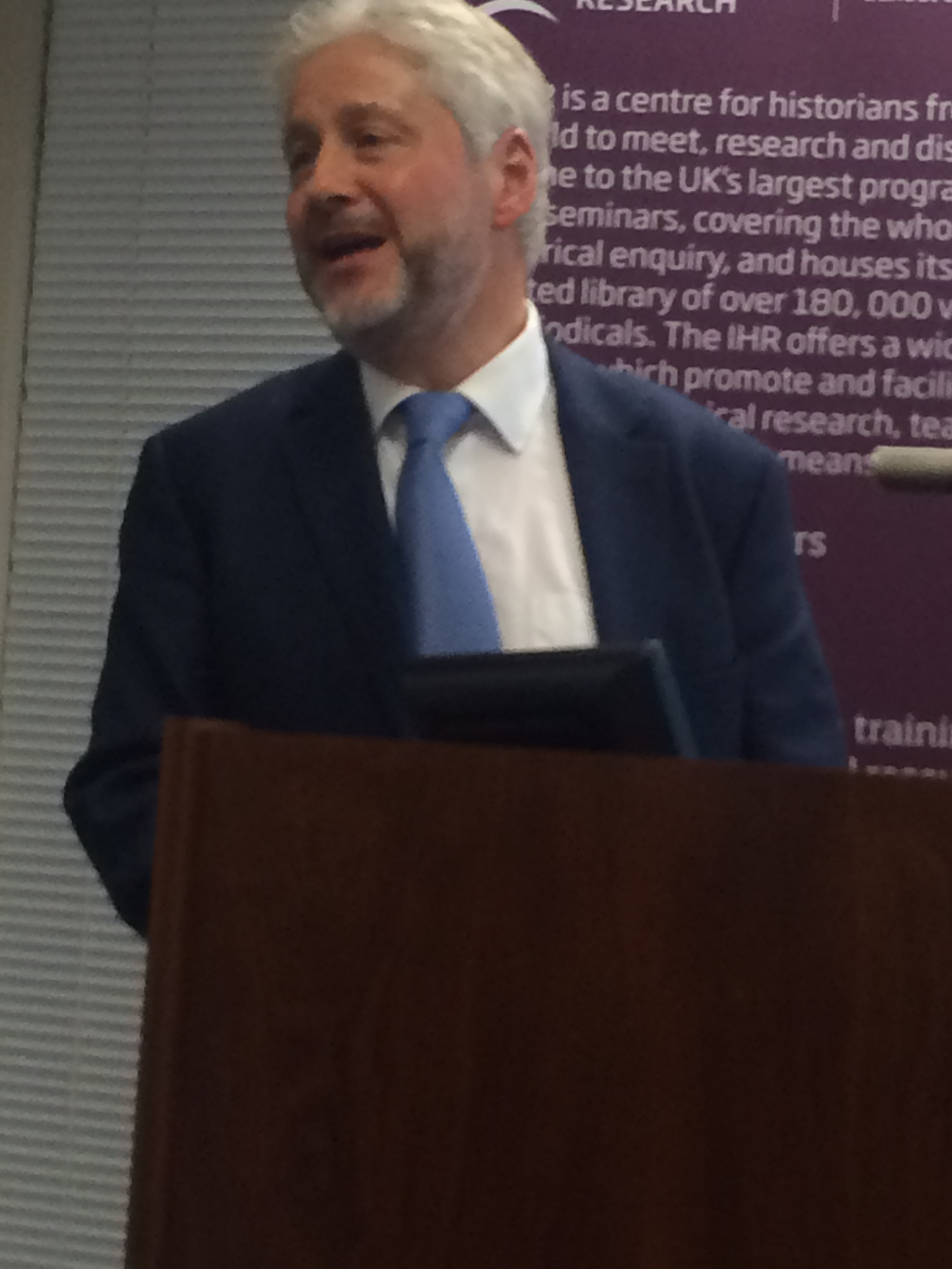 Lawrence Goldman at the IHR, London